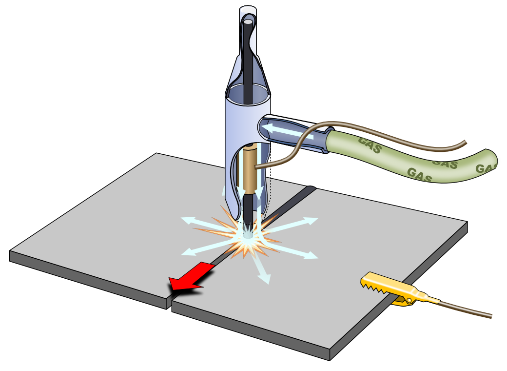 Gas arc welding (TIG & MIG)